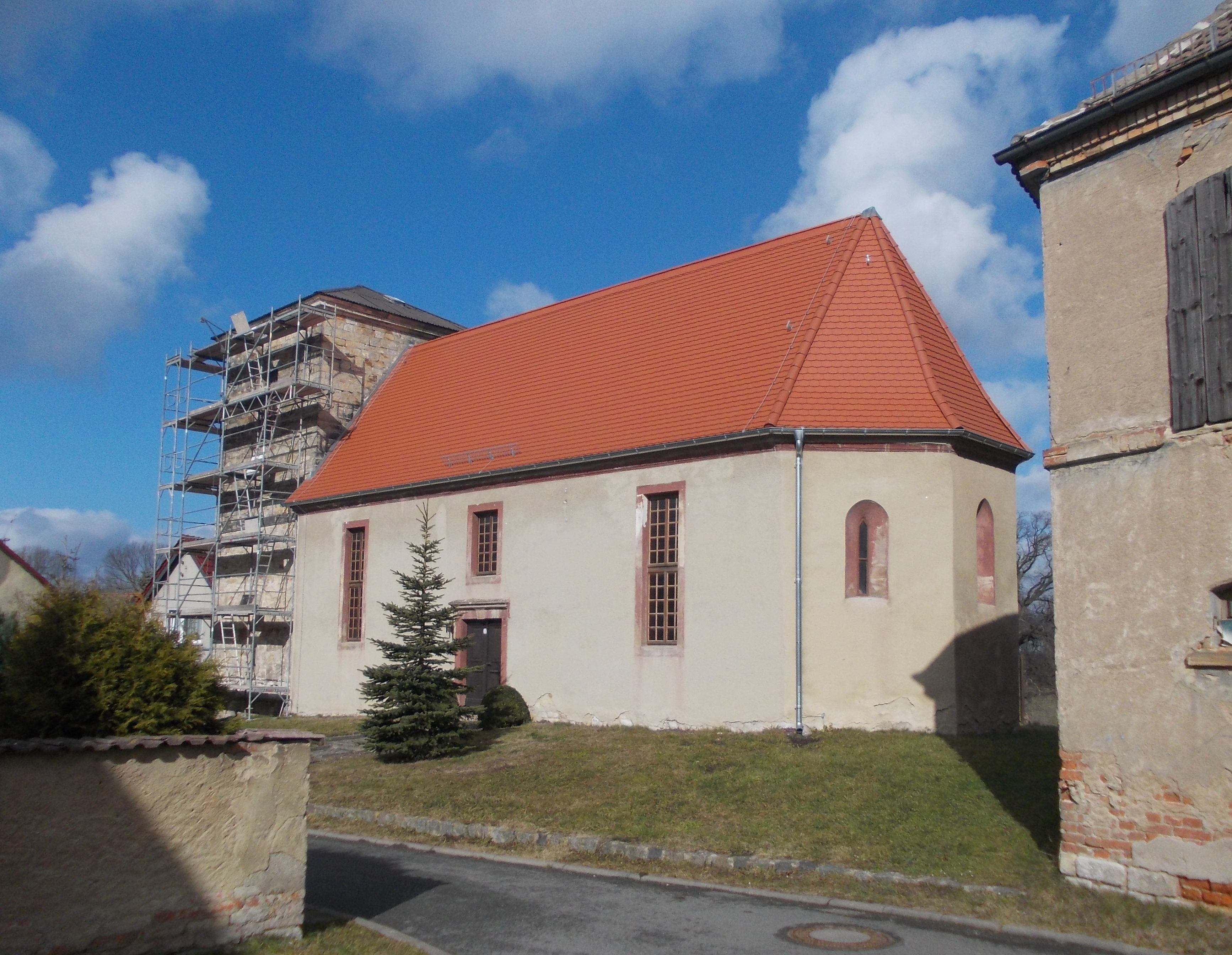 Zembschen church (Hohenmölsen, district: Burgenlandkreis, Saxony-Anhalt)